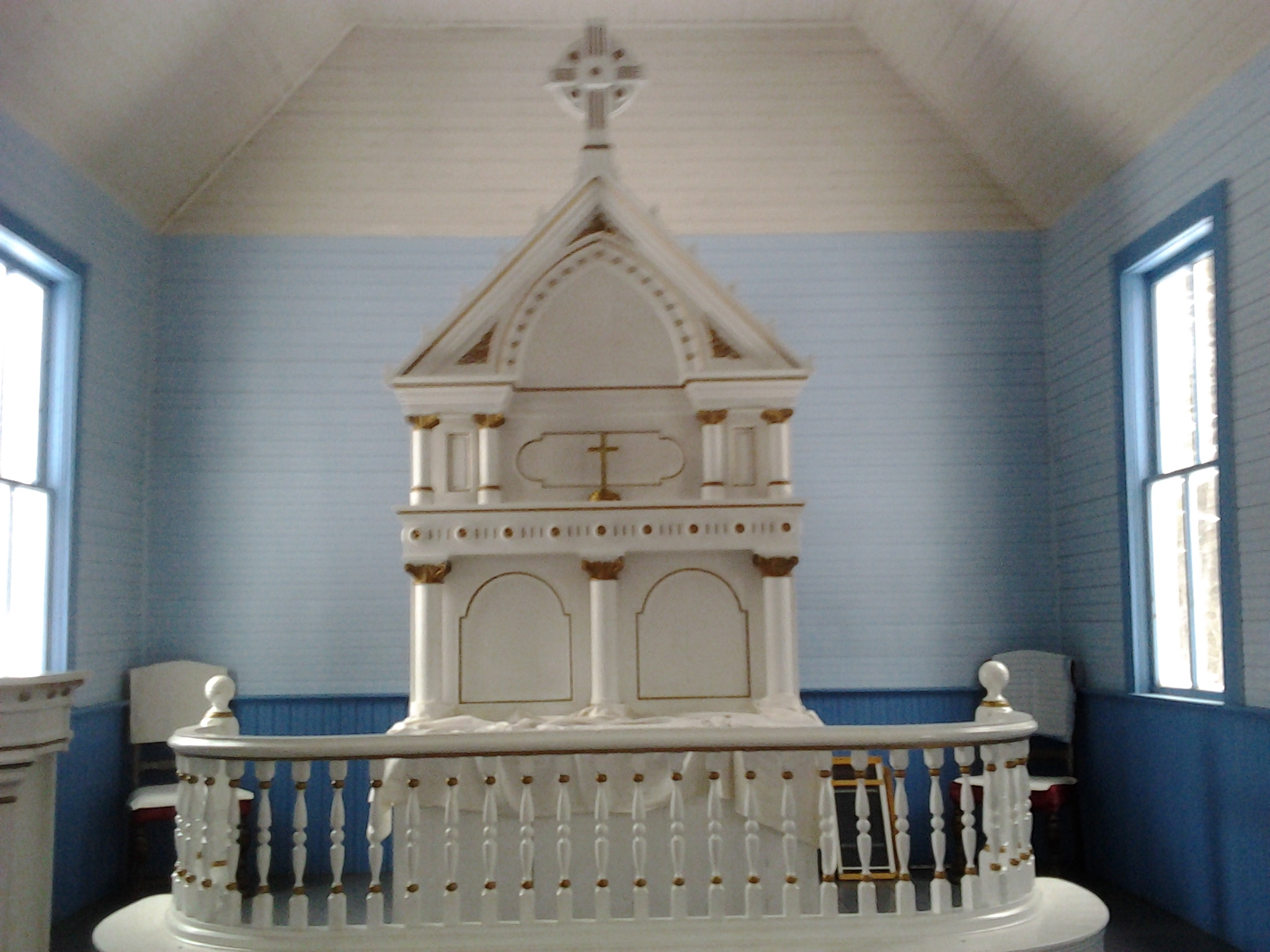 This Norwegian style altar was originally in a Duluth, MN church, but was moved to its present location, Dorris, Minnesota, in the late nineteenth century.